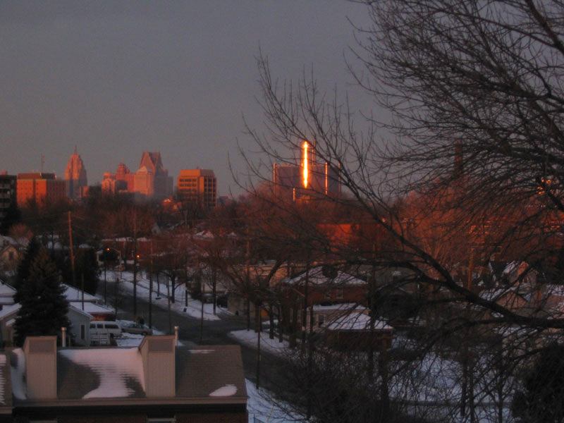 Detroit Skyline before sunset as seen from Windsor, looking northeast. Bloomfield Road (a residential street) is in front, with Brock Street crossing it in the distance.